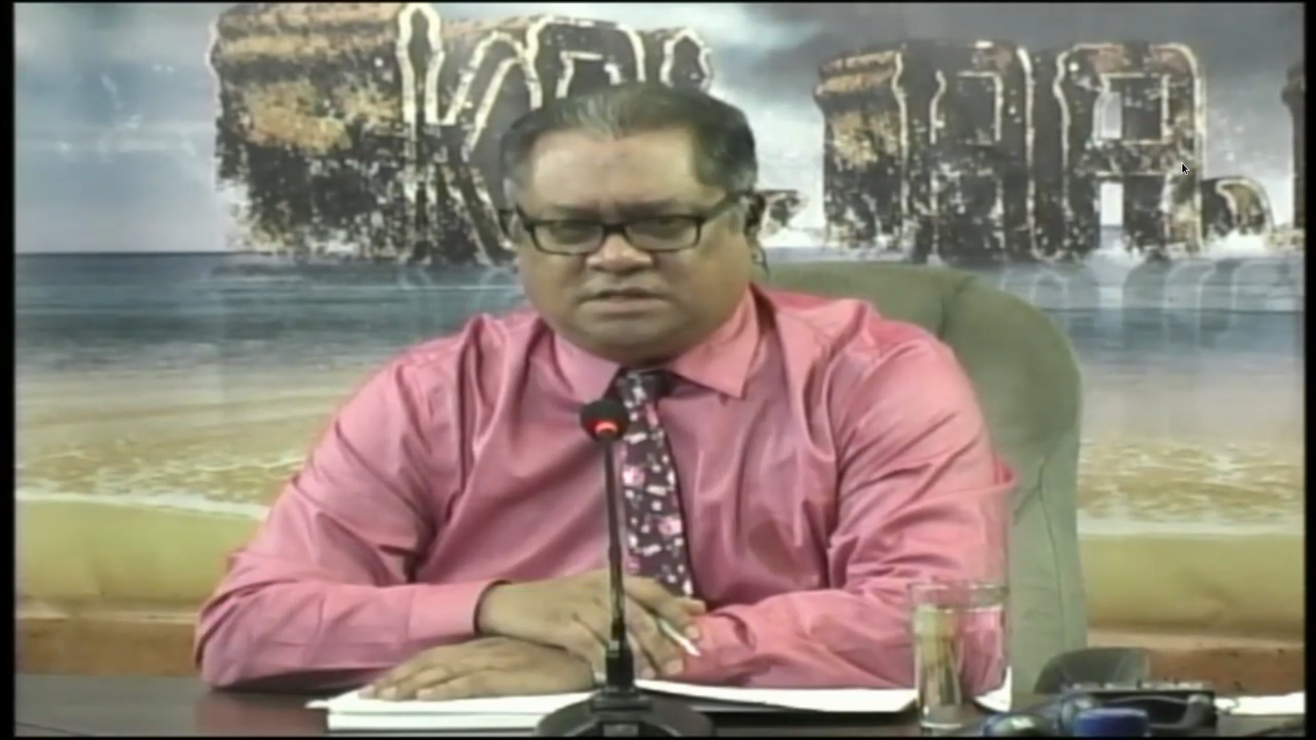 Faried Pierkhan, Surinamese television channel owner (RBN Suriname) and former politician